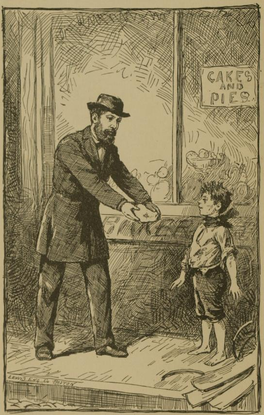 Illustration from below book